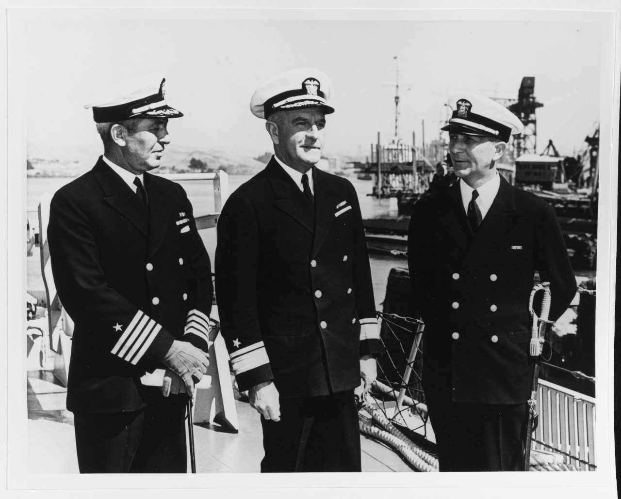 USS MCCALL (DD-400) commissioning ceremony, Mare Island Navy Yard, Vallejo, California, 22 June 1938. Captain James L. Kauffman USN, Captain of the Yard, Mare Island, is at left; Rear Admiral David W. Bagley, USN, Commandant, Mare Island Nay Yard, is in center: Lieutenant Commander John E. Whelchel, USN, is at right. Whelchel was the first Commanding Officer of MCCALL.